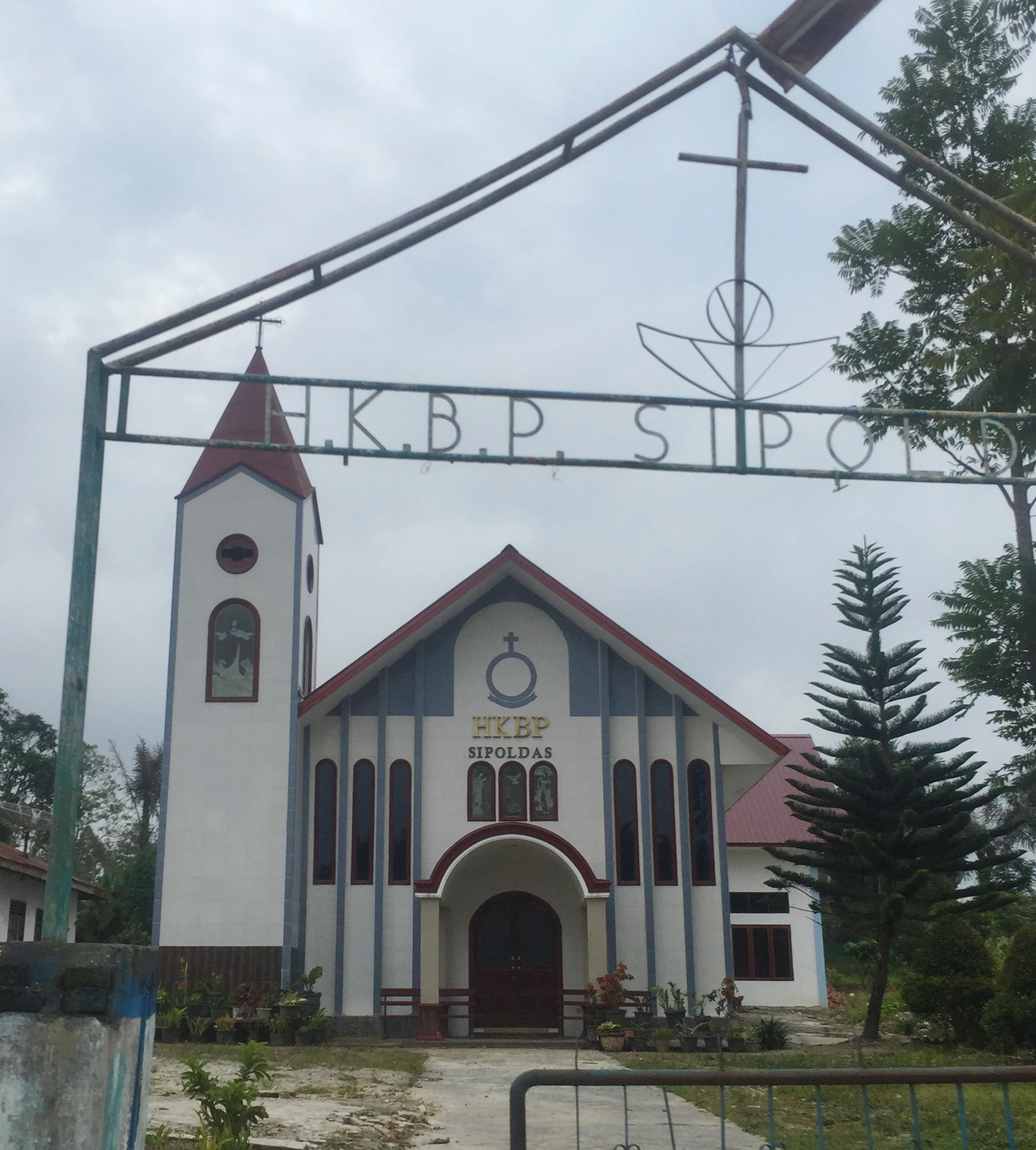 HKBP Sipoldas, church in Sipoldas, Panei, Simalungun